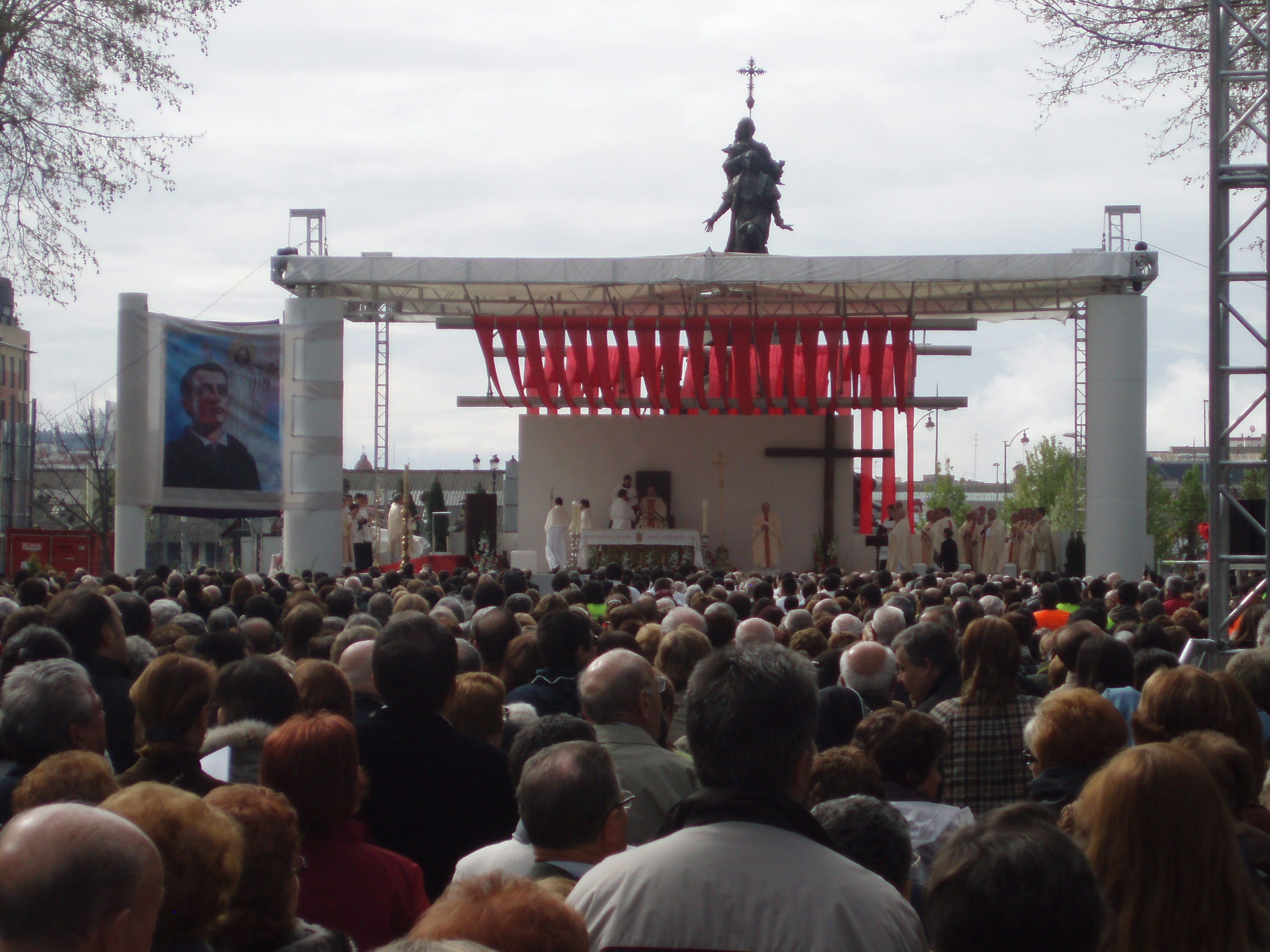 Beatification ceremony of Bernardo de Hoyos at Valladolid (Spain)